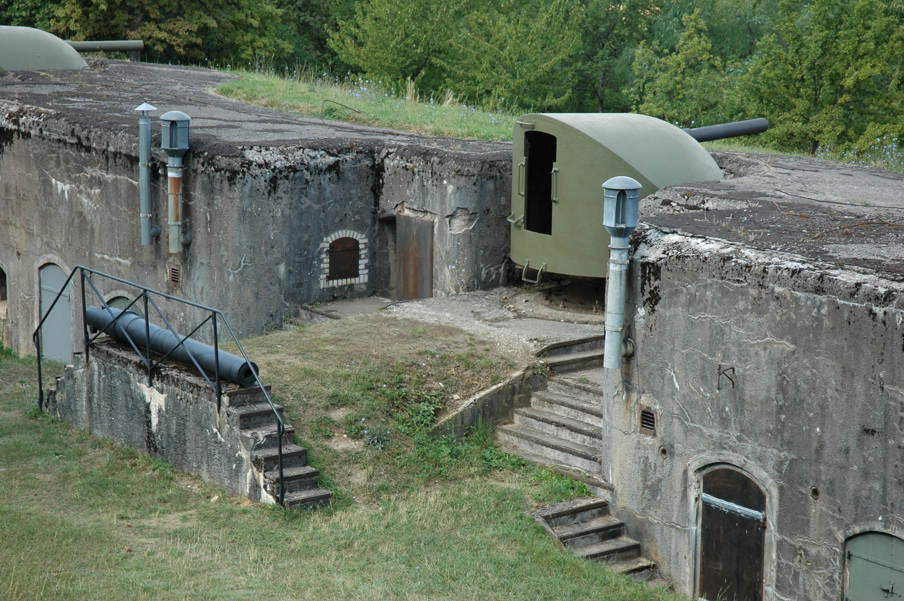 Mutzig fort